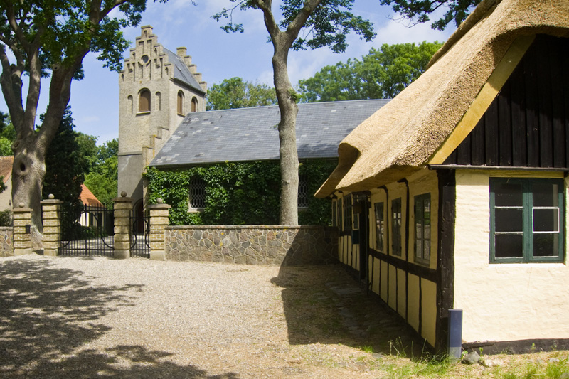 Strynø Kirke is a church situated on the Danish isle of Strynø